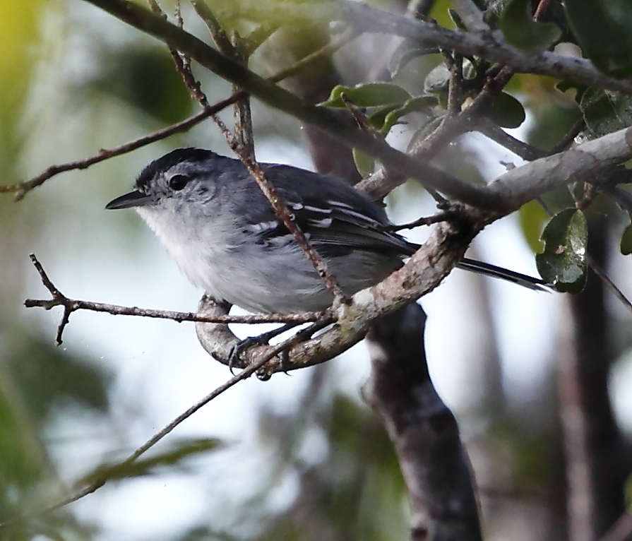 Caatinga antwren (male) at Crato - Ceará - Brazil